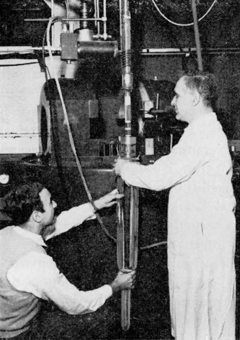 Photo taken during the Wu experiment, an elementary particle experiment performed by American physicist Chien-Shiung Wu at the US National Bureau of Standards (now NIST in 1956 that established the nonconservation of parity in elementary particle reactions involving the weak force. Tsung-Dao Lee and Chen-Ning Yang, the theoretical physicists who originated the idea of parity nonconservation and proposed the experiment, were awarded the 1957 Nobel Prize in physics for this result. In the experiment, the intensity of gamma rays emitted by the radioactive isotope cobalt 60 cooled to near absolute zero and placed in a magnetic field was measured. The picture shows the column containing the cobalt-60, detectors and magnetizing coil being slid into a glass Dewar flask, before being inserted in the large magnet in background, which will cool the sample to cryogenic temperatures. Caption:"Low temperature experiments at the Bureau demonstrated that the quantum mechanical law of conservation of parity does not hold in the beta decay of cobalt-60 nuclei. Apparatus used in the parity studies. An outer dewar flask is being place on a glass vacuum chamber containing a sample of radioactive cobalt-60. The large magnet in the background cools the sample almost to absolute zero by adiabatic demagnetization. The magnetic field of a solenoid is then used to polarize the cobalt nuclei."